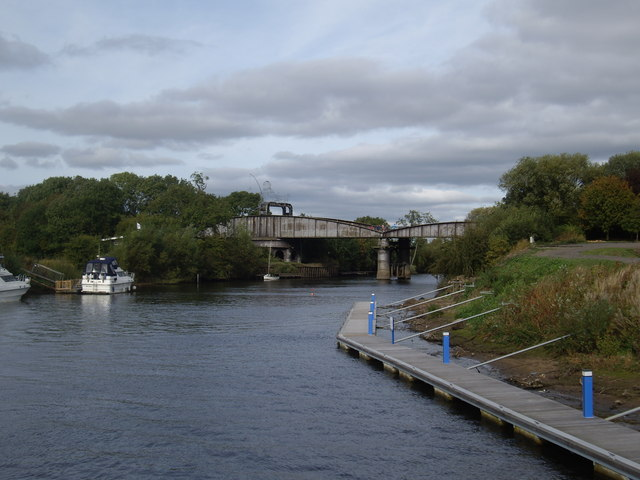 Approach to Naburn Bridge From on the River Ouse, by York Marina private moorings (on the right).